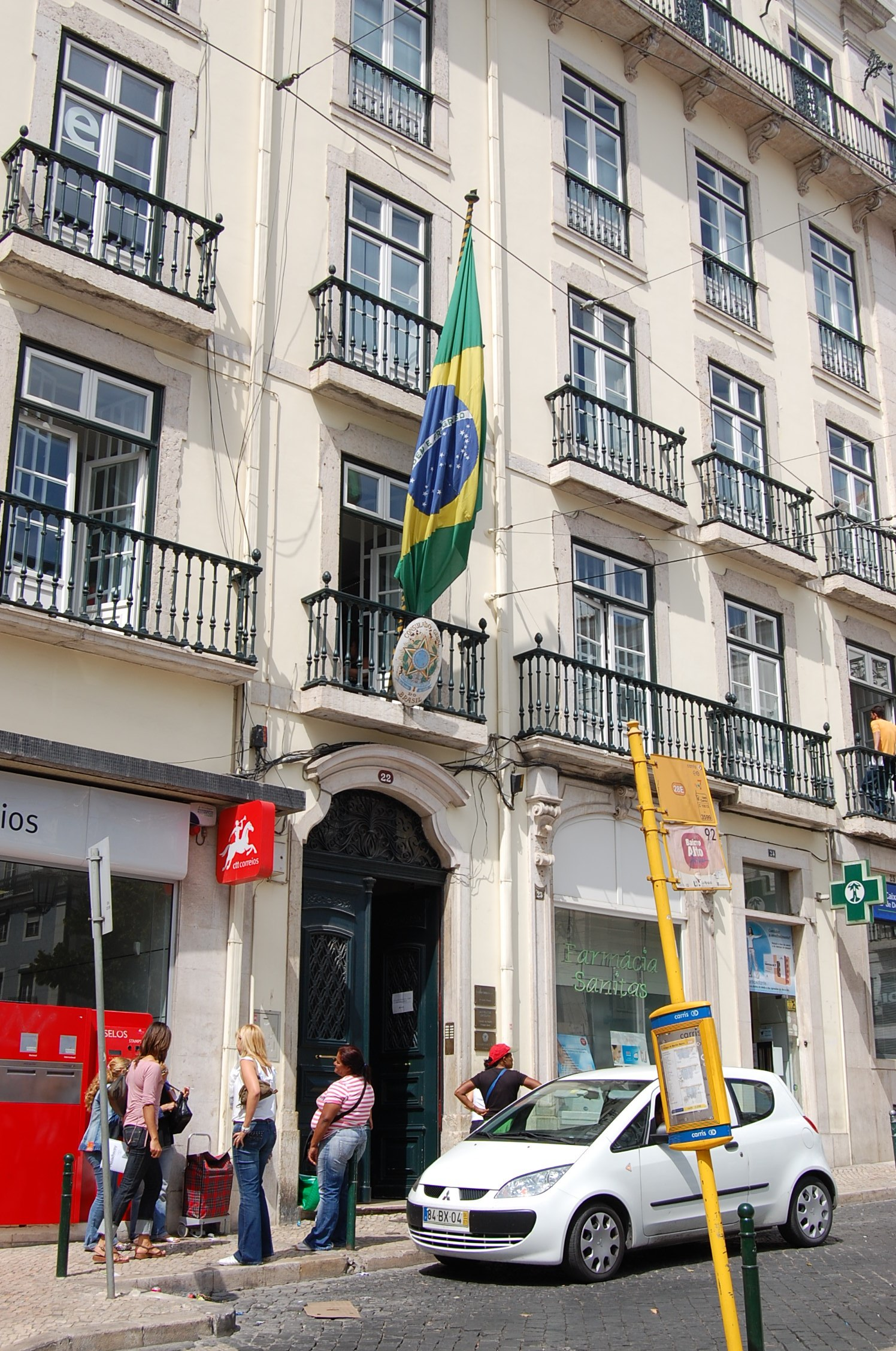 Consulate-General of Brazil in Praça Luís de Camões, Lisbon, Portugal.